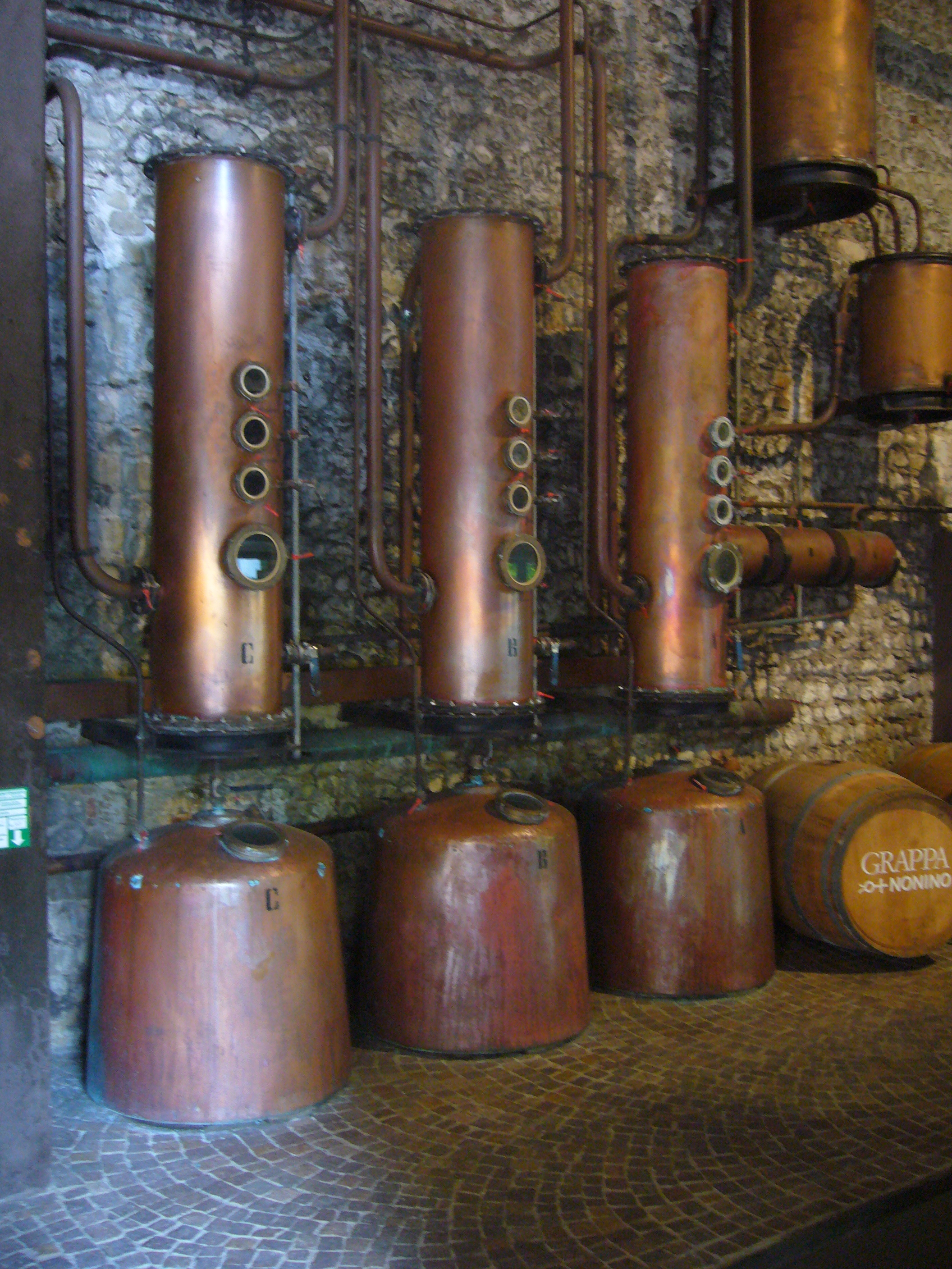 Distillery, old machines at Nonino, Percoto, Italy